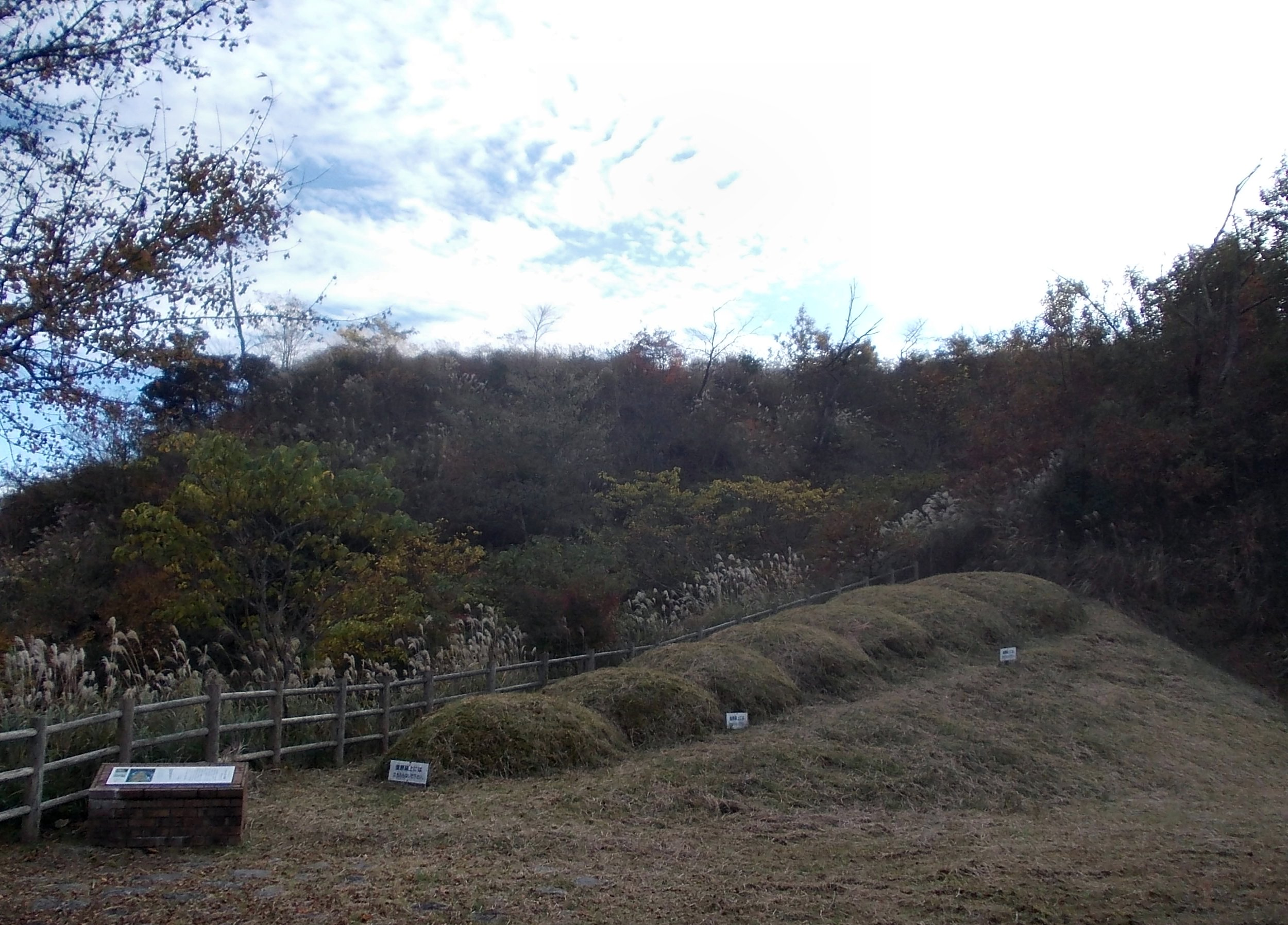 Ipponsugi No.2 Kiln in Toho, Fukuoka, Japan. There are two old kiln sites in Koishihara-mura, the Kamata No.1 Kiln and Ipponsugi No.2 Kiln. Both have been designated as being of prefectural importance.